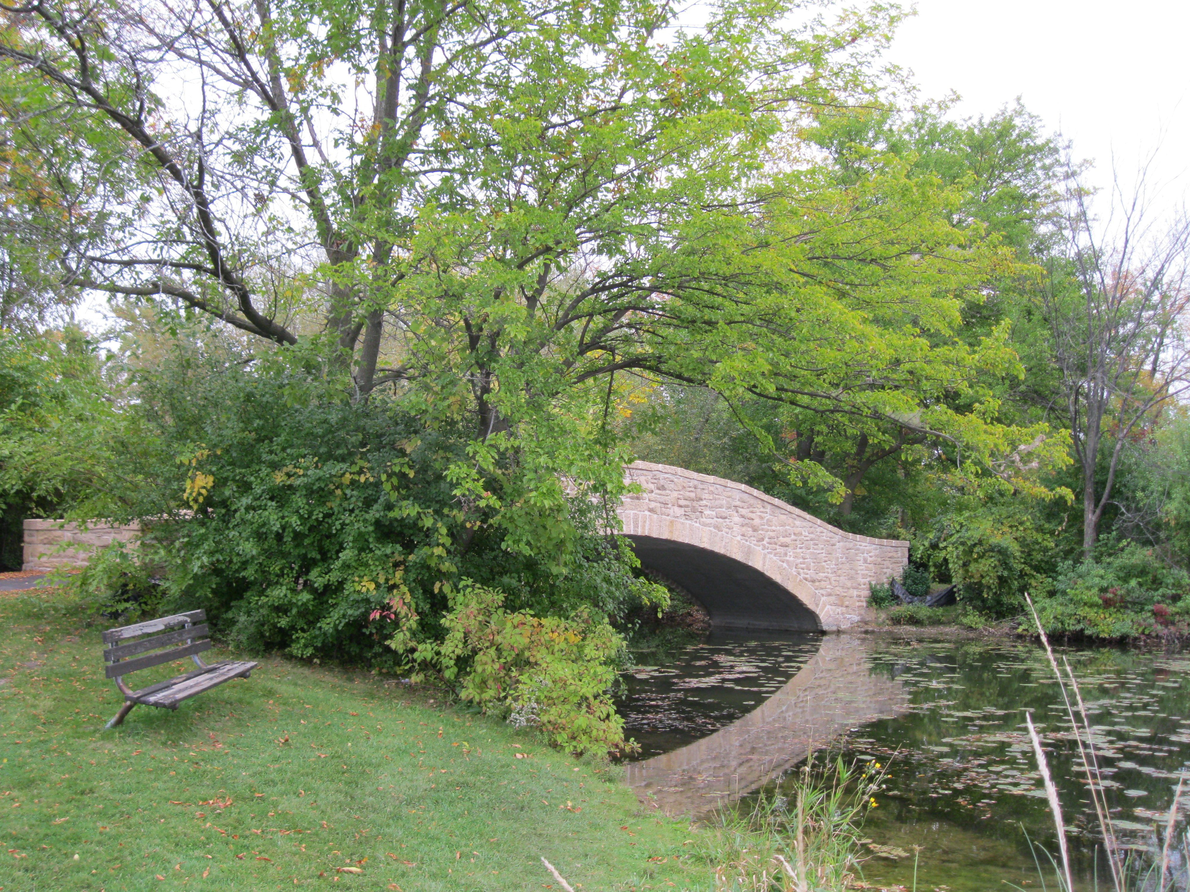 Footbridge on the northwest side of Tenney Park in Madison, Wisconsin. The footbridge is part of the Tenney Park-Yahara River Parkway historic district.